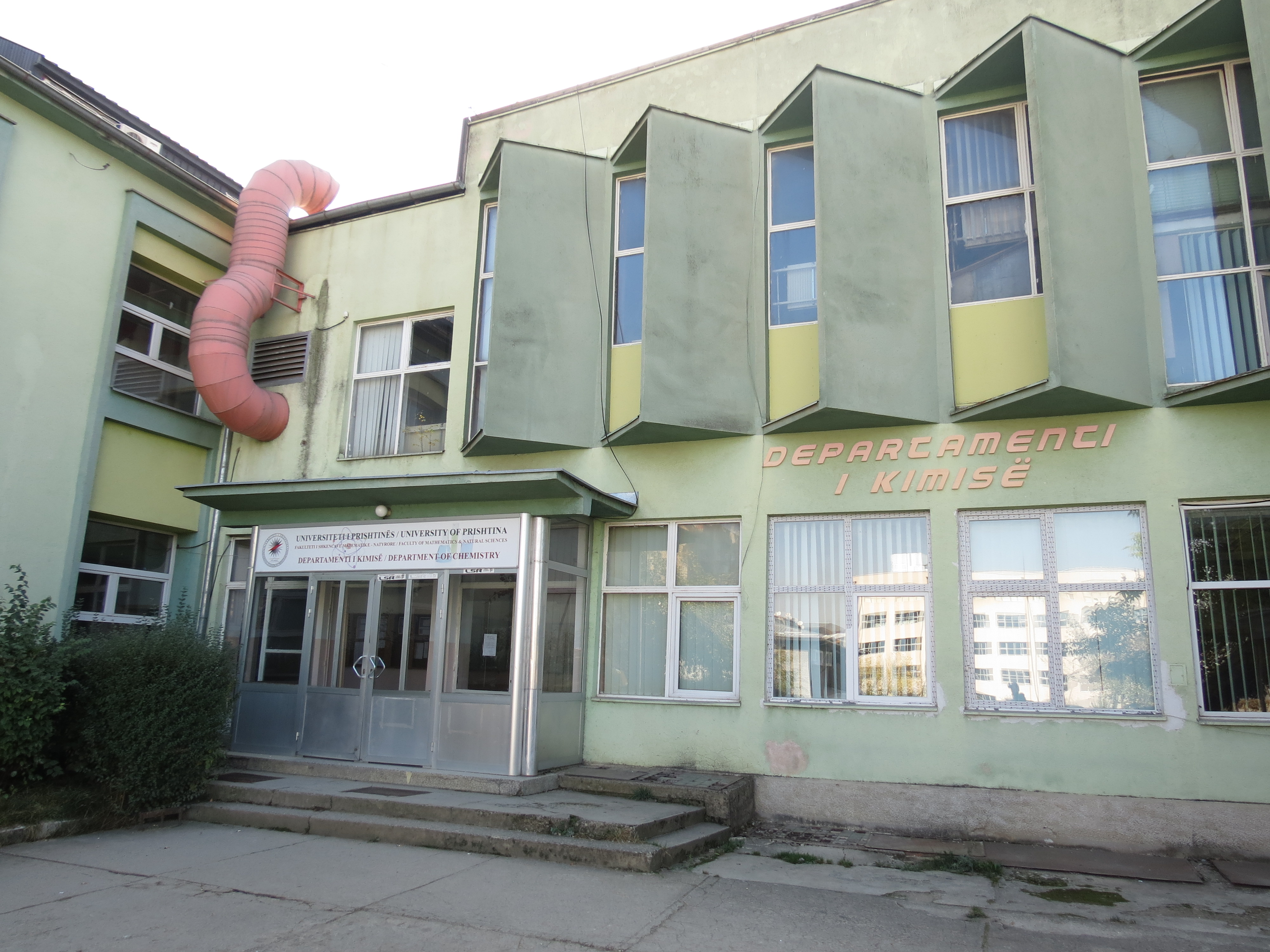 Faculty of Mathematics and Natural Sciences - Department of Chemistry of the University of Pristina in Kosovo.